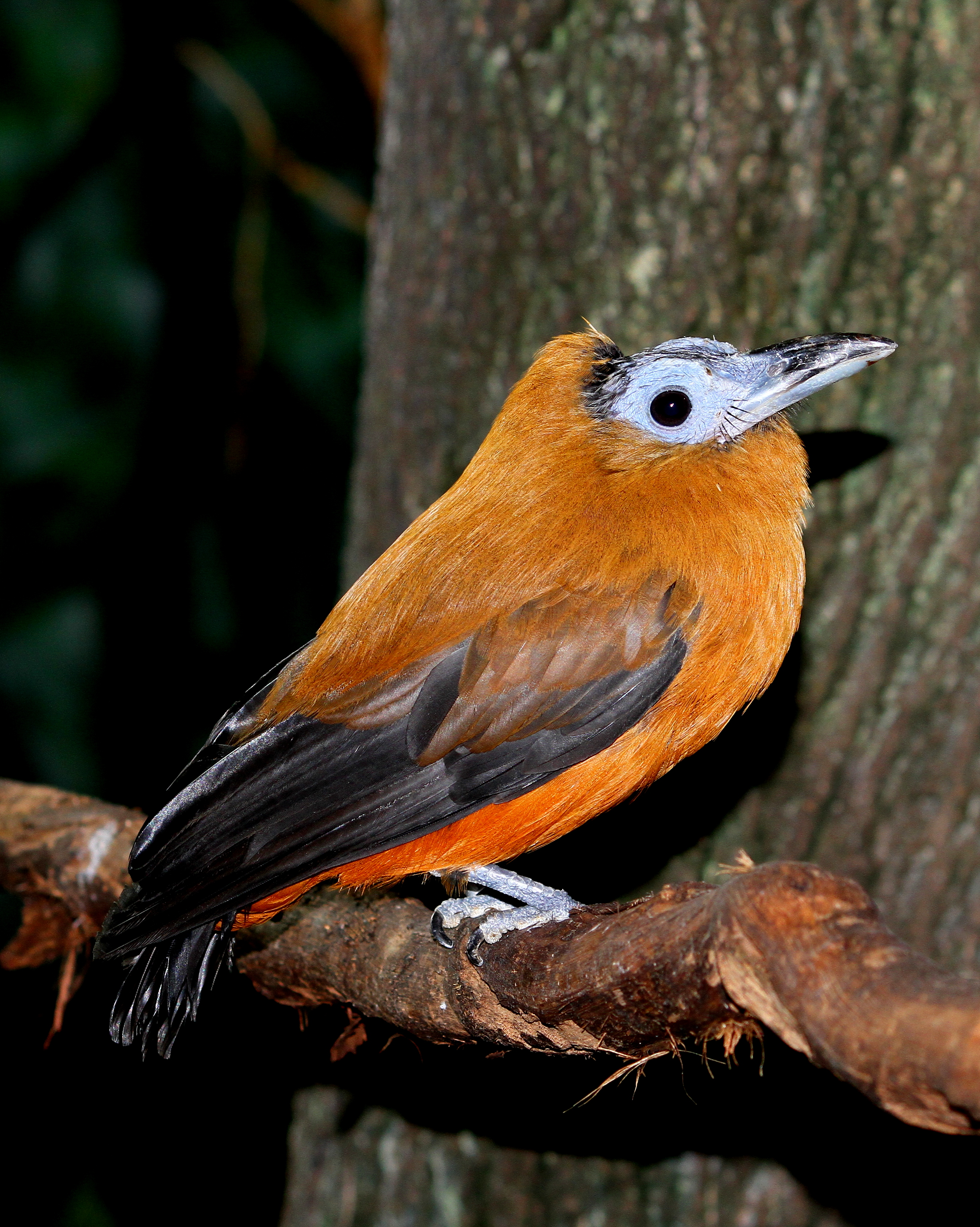 Capuchinbird - Perissocephalus tricolor - taken at the Cincinnati Zoo.